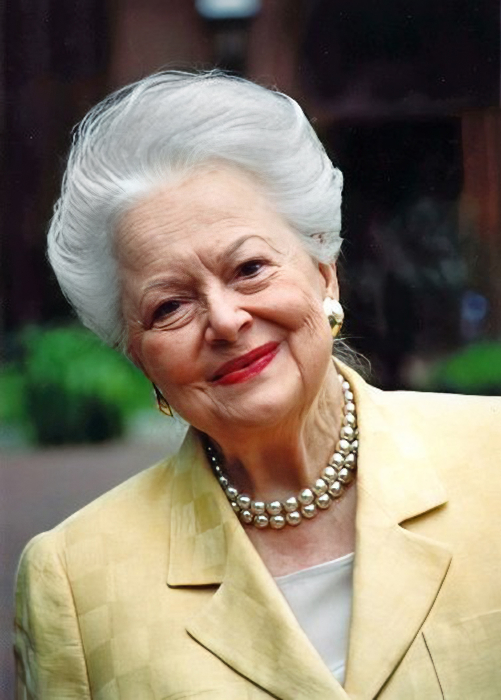 From Smithsonian Institute Wash. D.C. April 2000